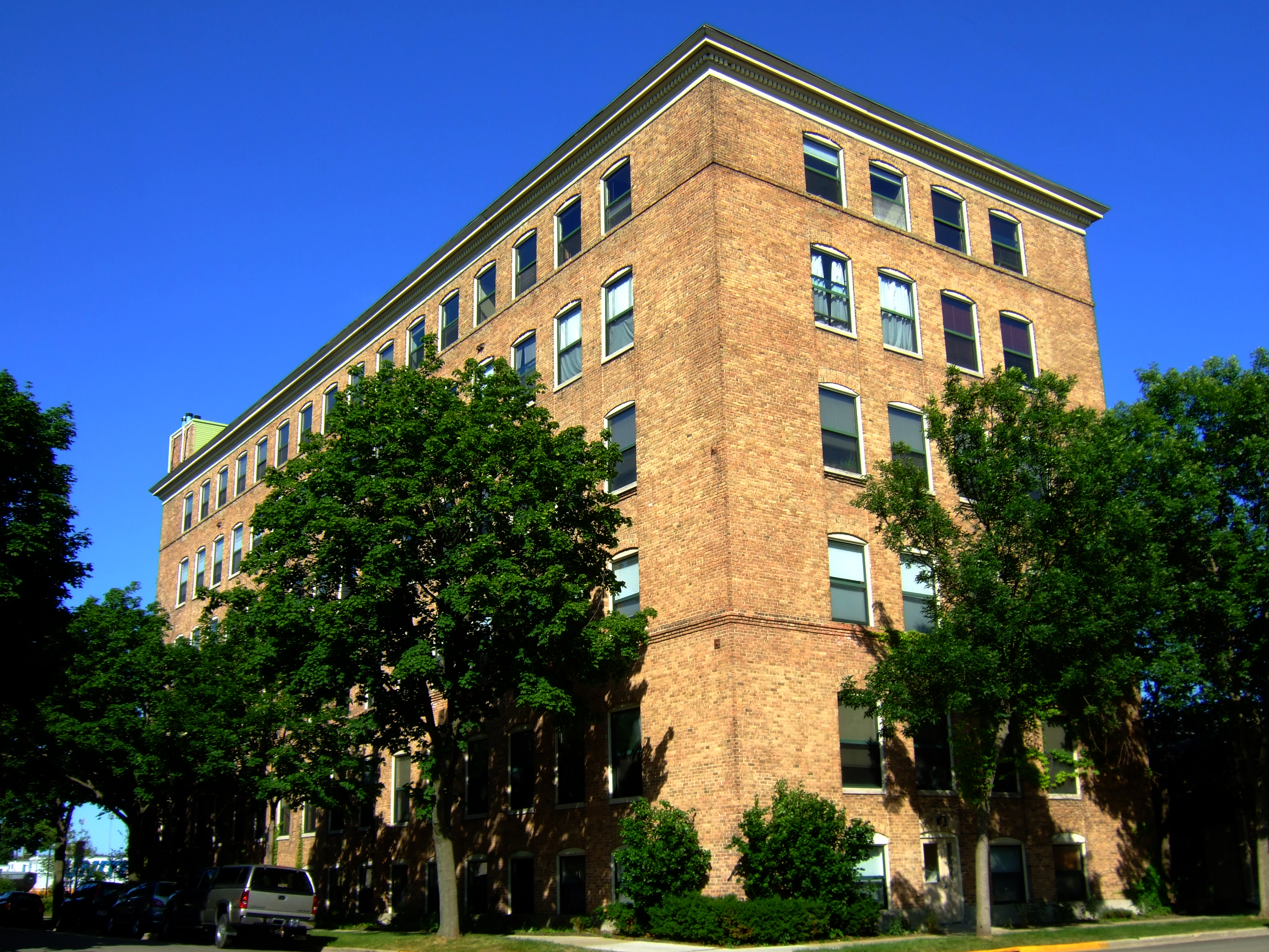 Badger State Shoe Factory building (ca. 1915) designed by Ferdinand Kronenberg in utilitarian-industrial style with neo-Classical motifs. Now "Das Kronenberg" apartments in Madison, Wisconsin. Added to the National Register of Historic Places in 1989.